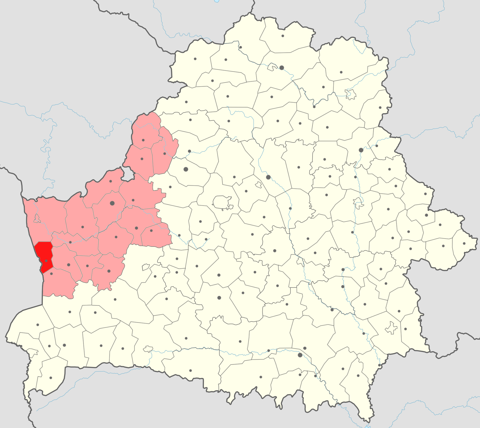 Map of Bierastavicki rayon (in red) with Hrodna voblast' (in light red) on the map of Belarus.